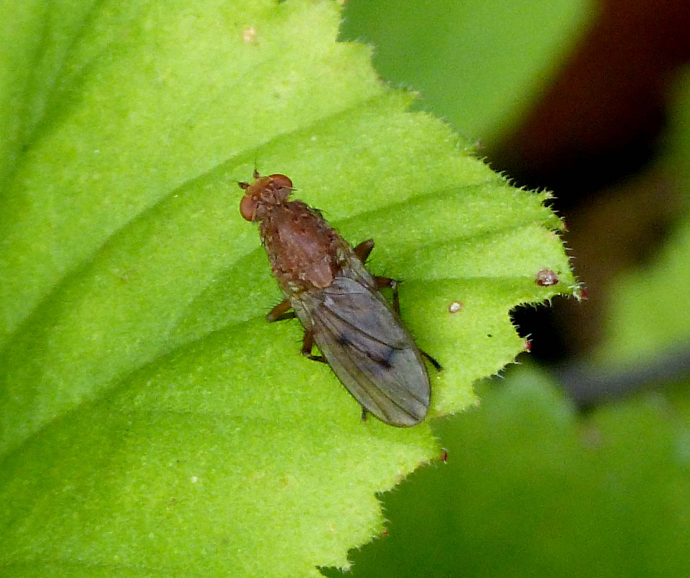 Cradley, Malvern Worcs. SO7347 Heleomyzidae have regularly spaced spines along the edge of the forewing